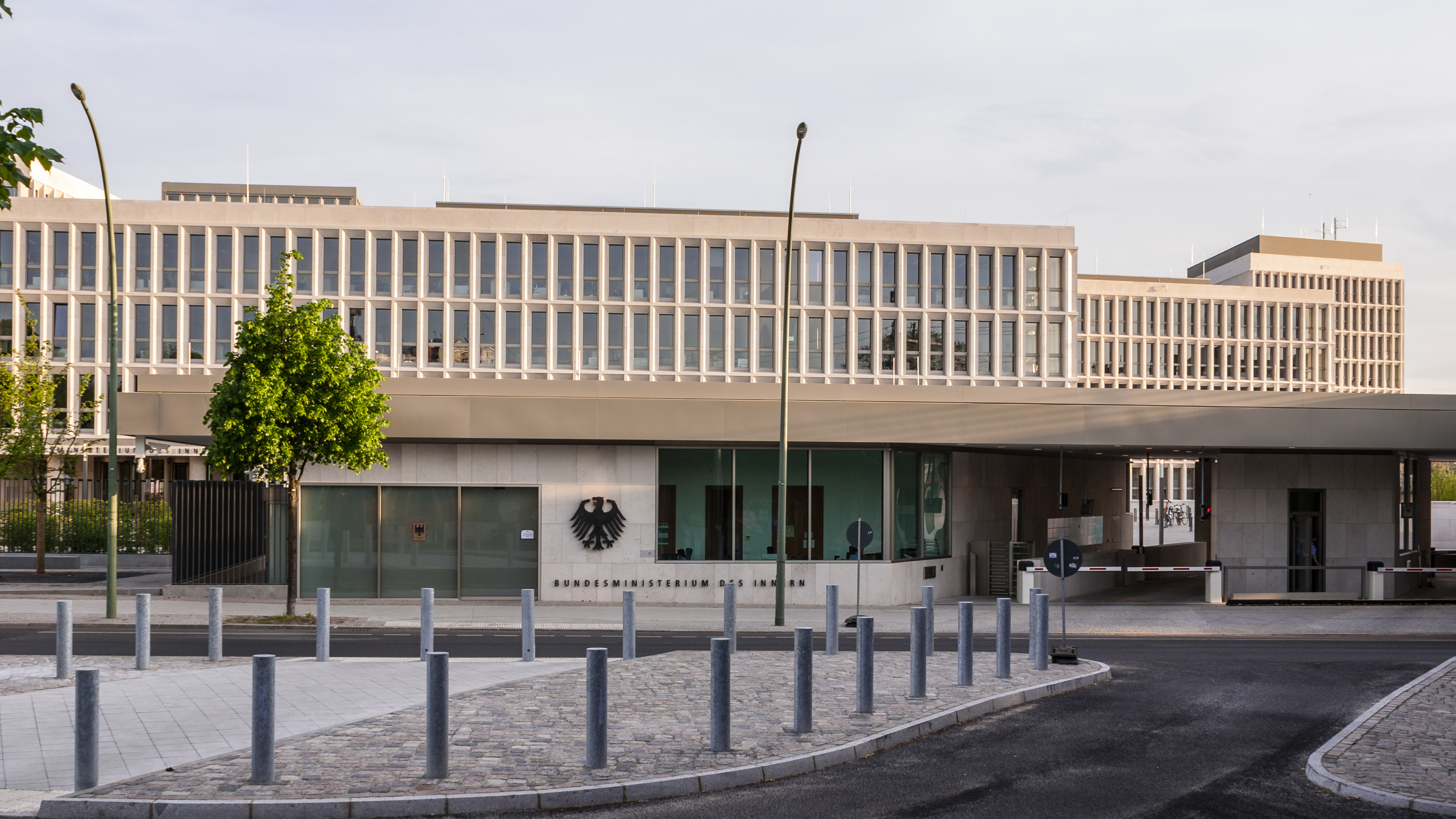 Entrance gates of the Federal Ministry of the Interior, Berlin-Moabit